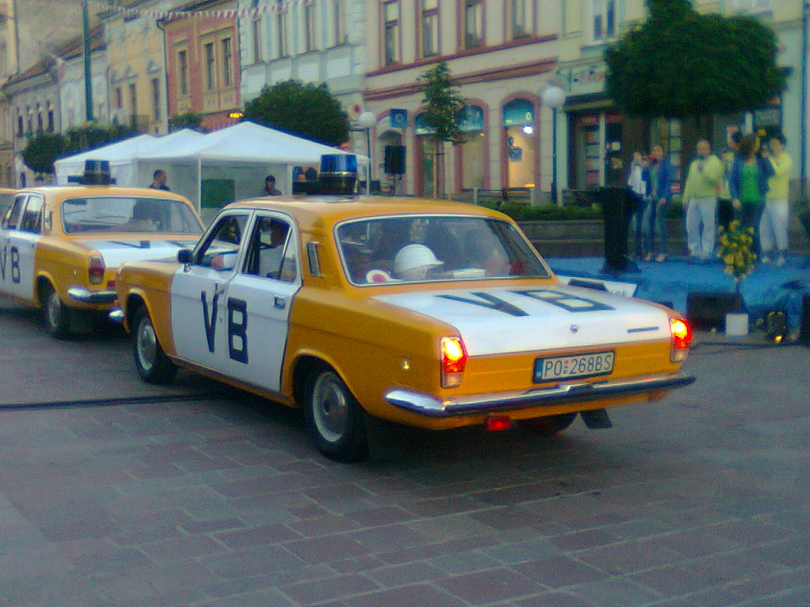 GAZ-24-24 Volga during veteran parade in Prešov.It is in coulours or VB - czechoslovak police during communist regime. june 2012